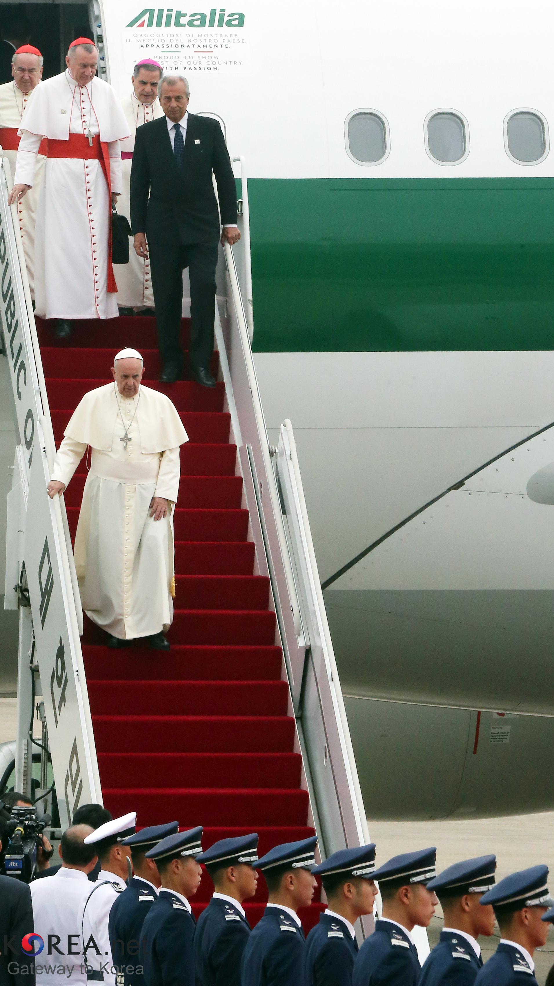 Pope Francis arrives at Seoul Airport